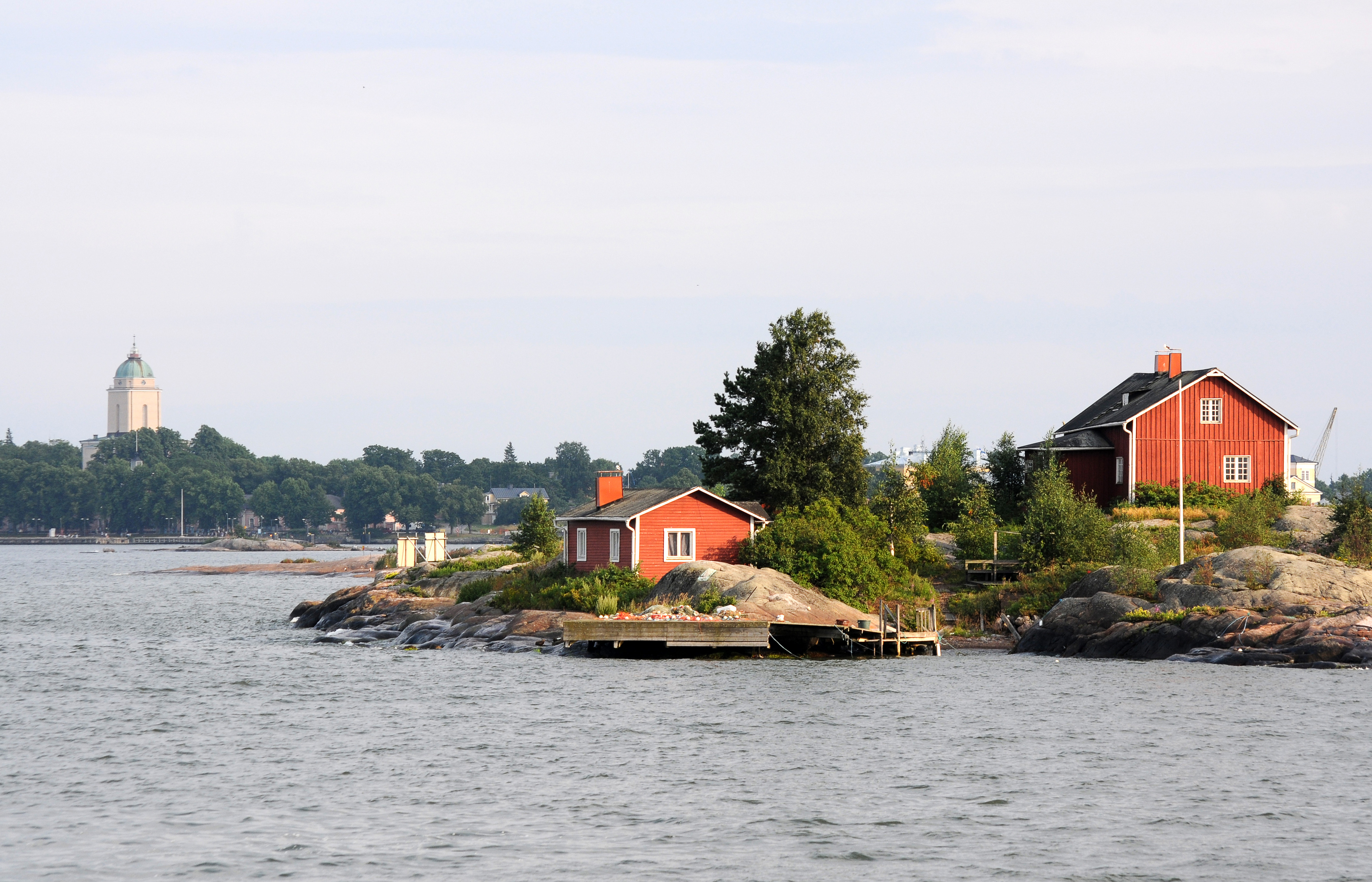 Ryssänsaari island in Helsinki, Finland